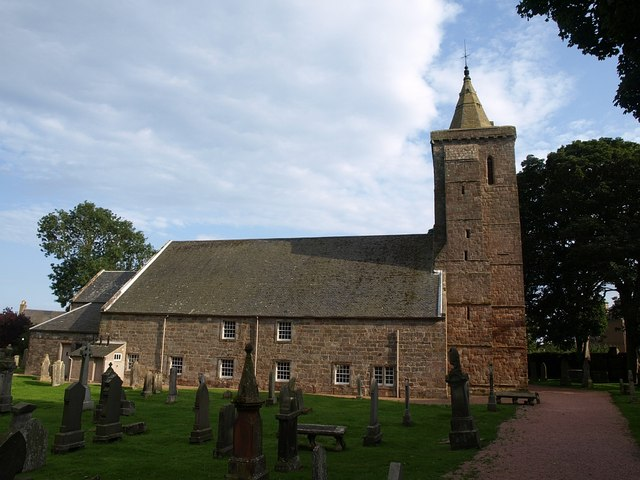 Crail church. This view of 750618 is from the north side of the churchyard across a gridline.